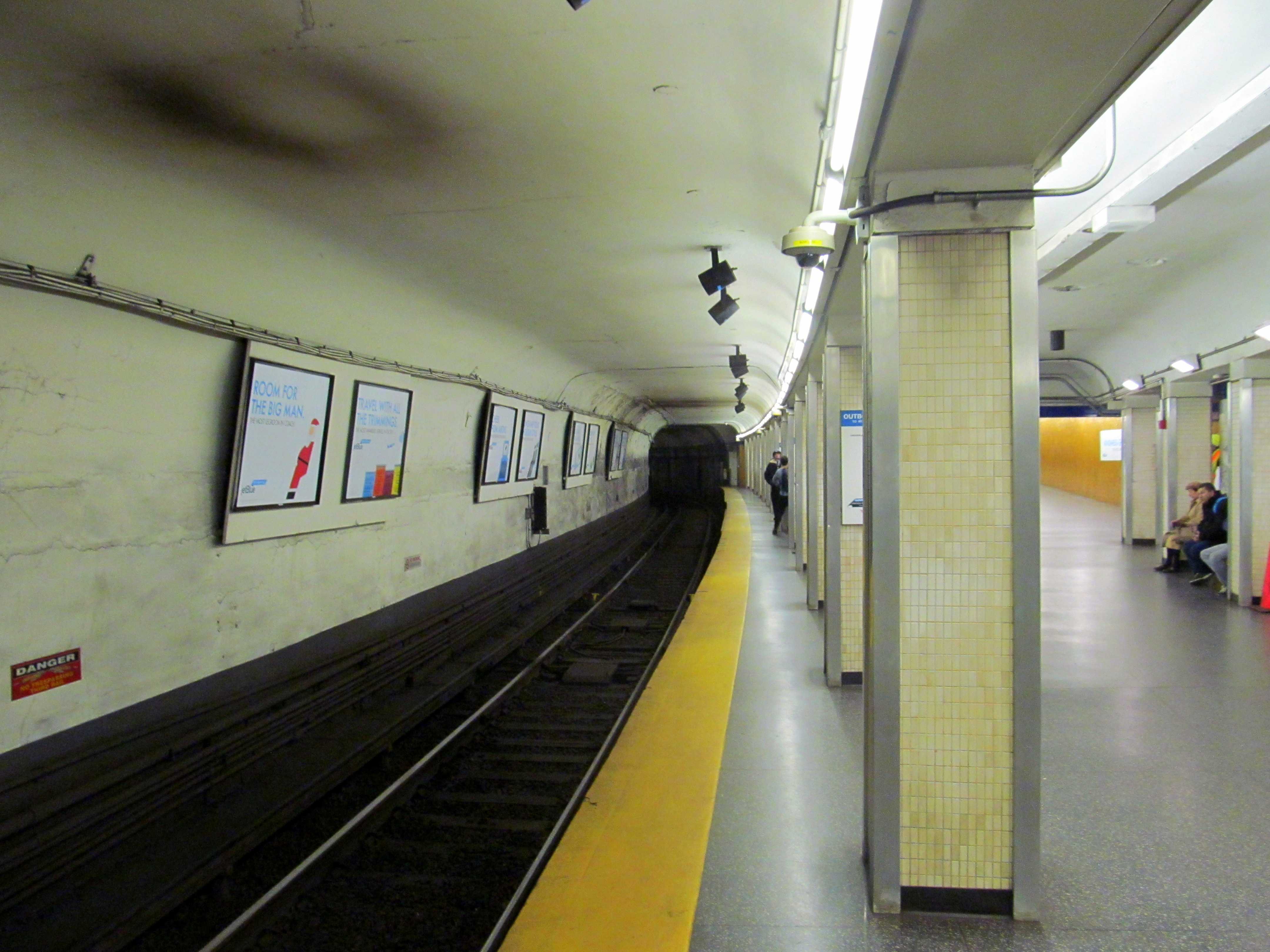 Eastbound (originating) platform at Bowdoin station in November 2015